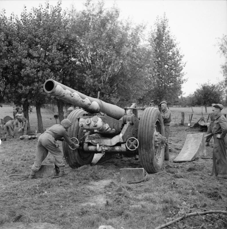 The British Army in North-west Europe 1944-45 7.2-inch howitzer of 51st Heavy Regiment, Royal Artillery, France, 2 September 1944.